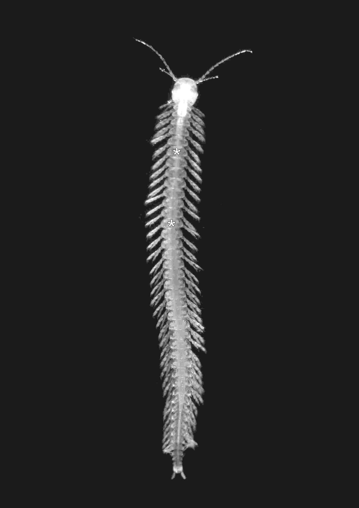 Photograph of a living specimen (Crustacea, Remipedia, Speleonectidae) from the Exuma Cays, Bahamas.